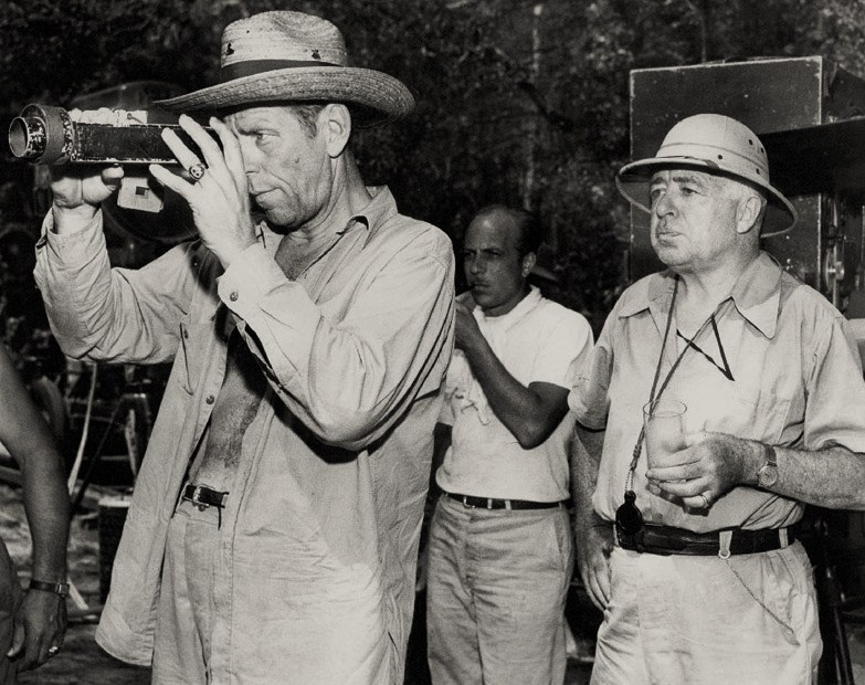 L. to R. : Leonard Smith (cinematographer), unknown & Clarence Brown (director) on the set of The Yearling - publicity still